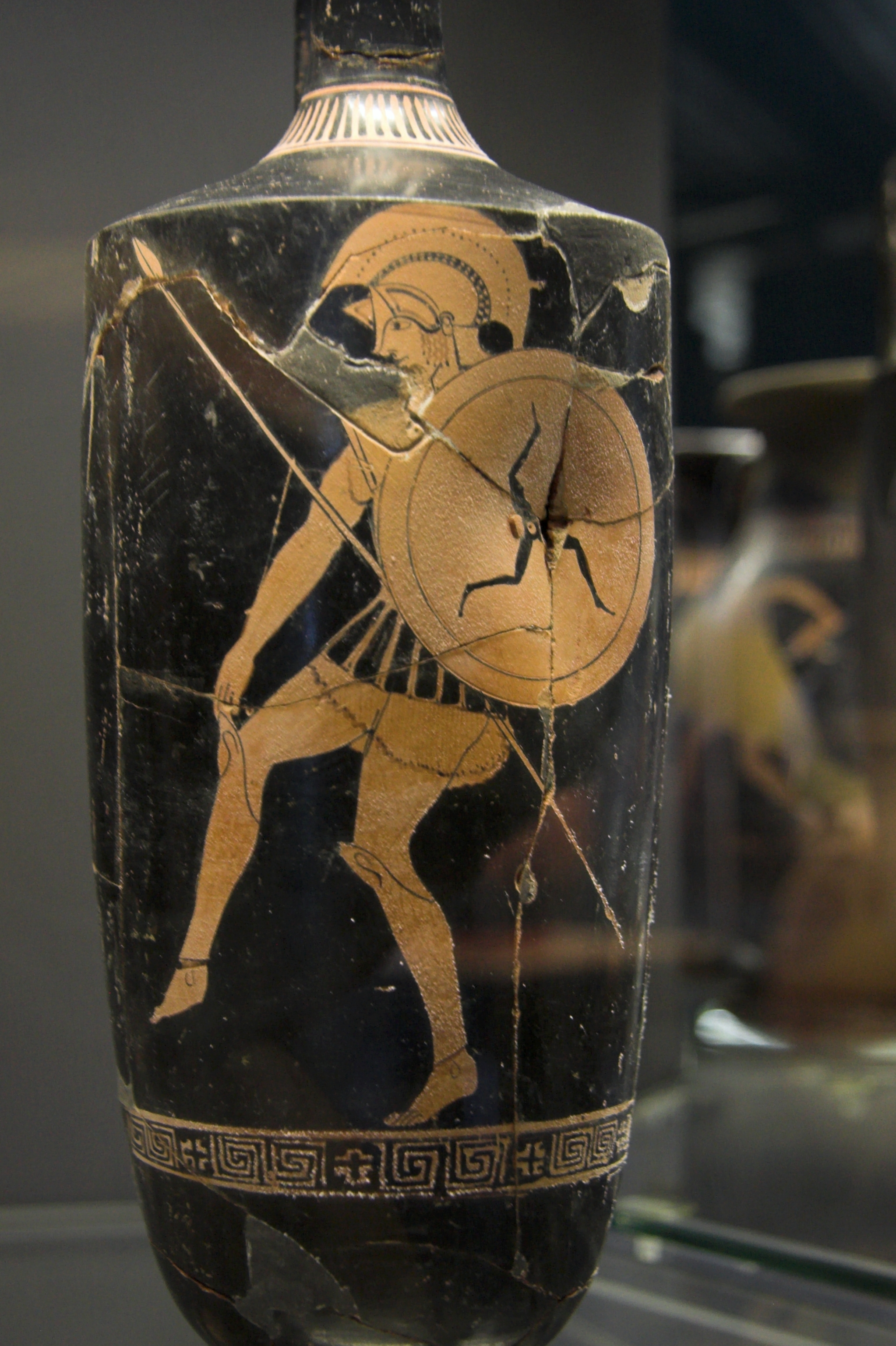 Red figure lekythos, Tithonos Painter, aroud 470 BC. Warrior, with Triskelos (triskelion) on the shield. Finding from a tomb near Licata. Archaeological Museum of Syracuse.